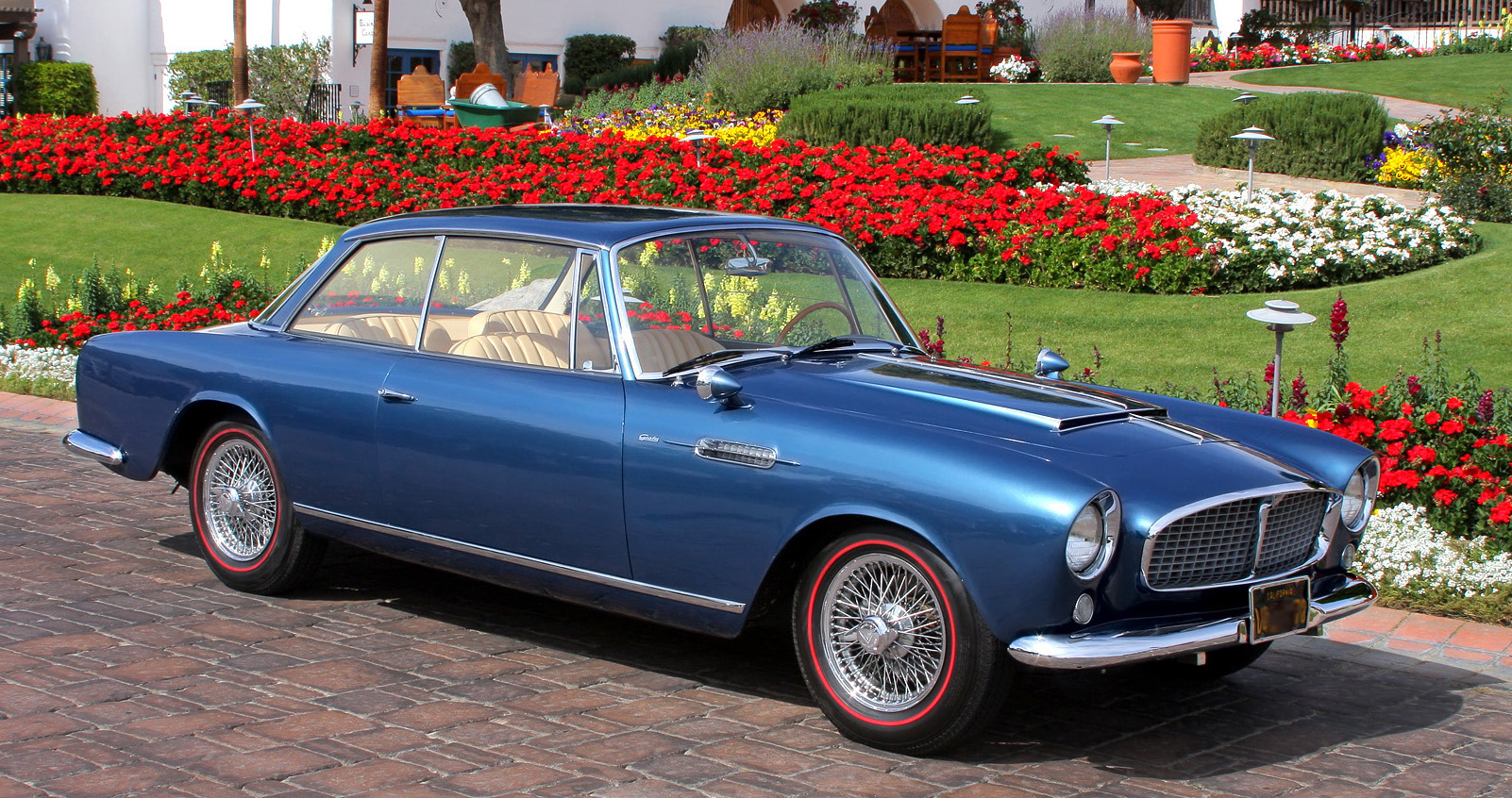 Alvis Super Coupé by Graber, at the Third Annual Desert Classic Concours d'Elegance, Feb 28 2010. Chassis number 27474, this is the last Graber-bodied coupé Alvis. Still with the family of the original owner in California.